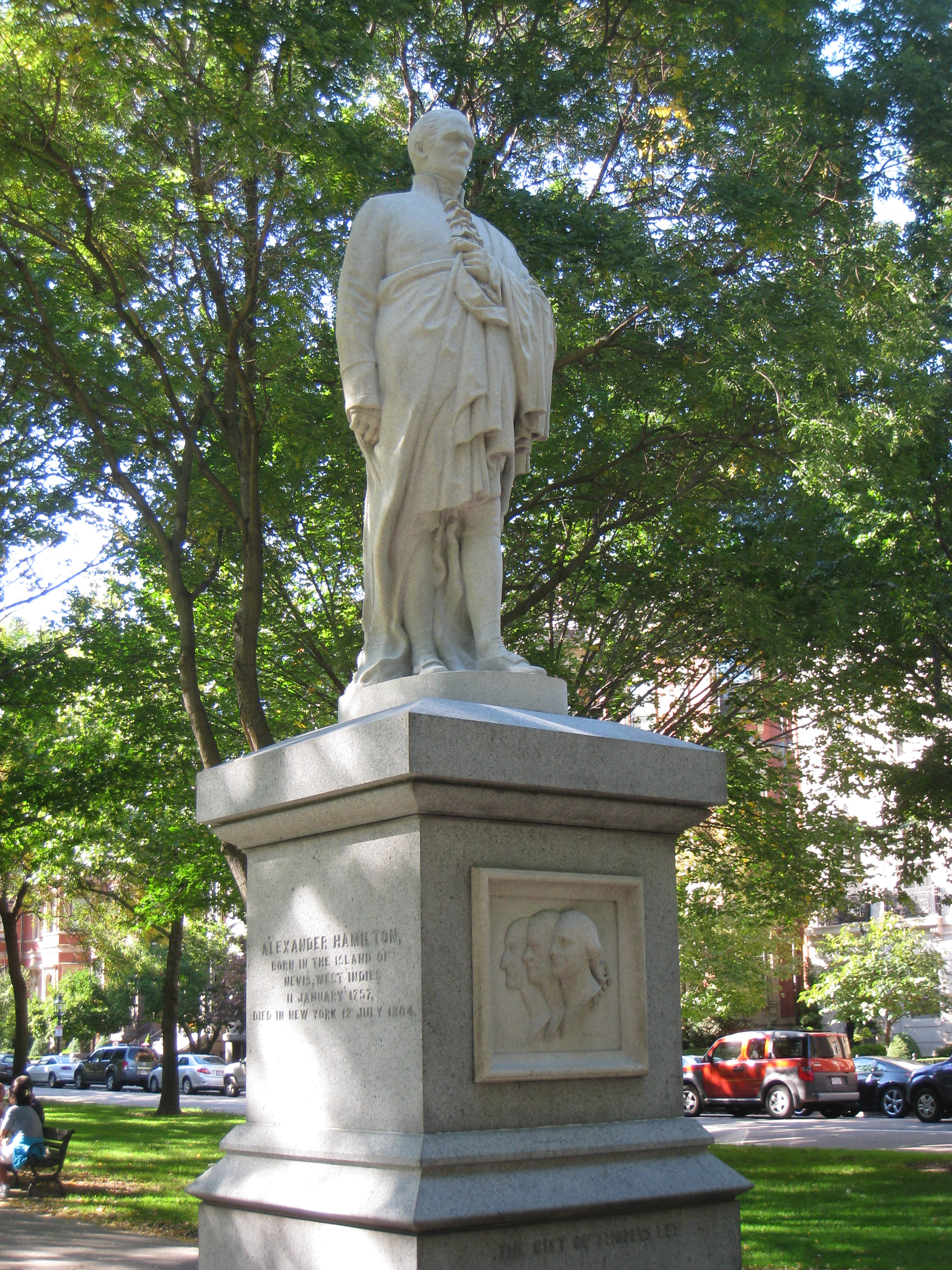 Statue of Alexander Hamilton, dedicated 1865 by William Rimmer (1816–1879), Commonwealth Avenue, Boston, Massachusetts, USA. I took this photograph.